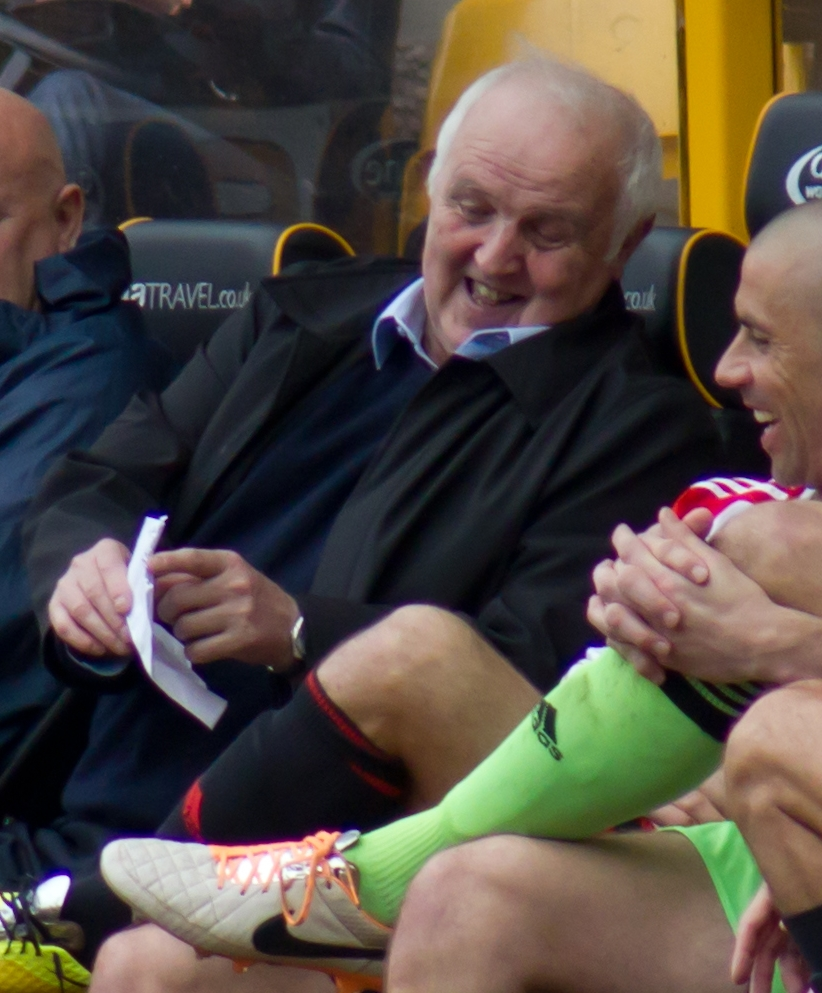 Bobby Saxton in the dugout for Sunderland during a match against Wolverhampton Wanderers at Molineux Stadium, Wolverhampton on 5 May 2014